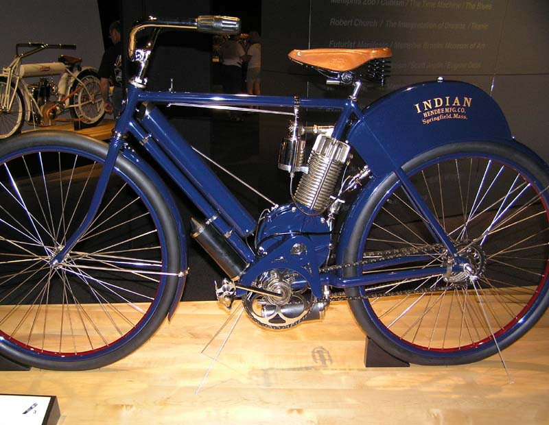 1901-02 Indian Single 16 ci (1) - The Art of the Motorcycle - Memphis. 1.8 hp. Top speed 30 mph (48 kph). The Otis Chandler Vintage Museum of Transportation and Wildlife, Oxnard, California.